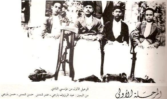 Founders of Alahli